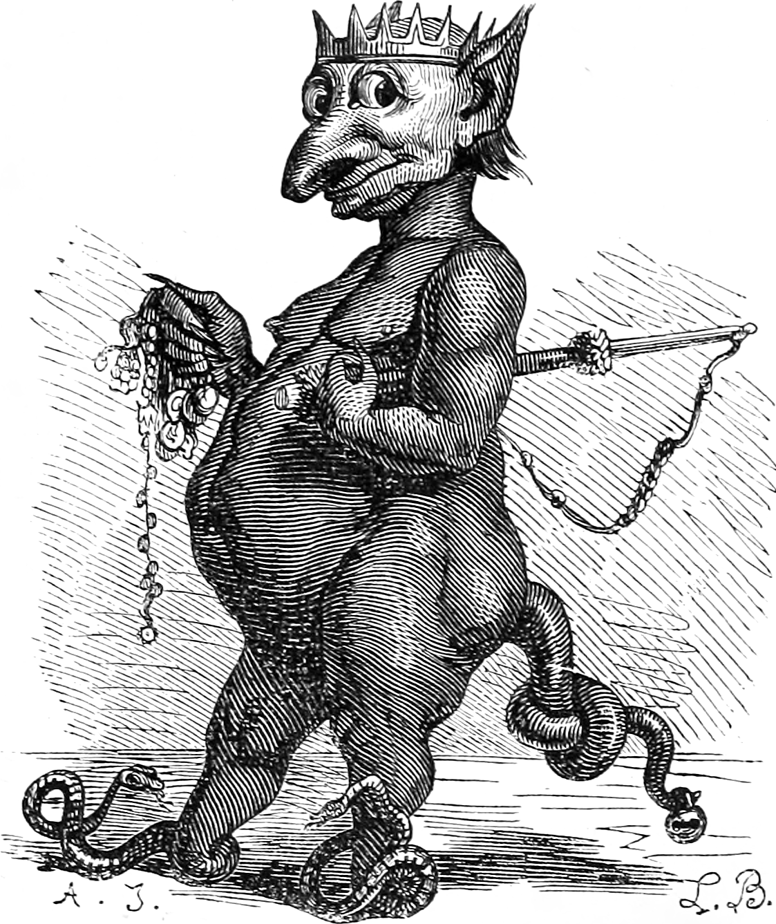 Abraxas or Abracax, an illustration from the "Dictionnaire Infernal" by Jacques Collin de Plancy.